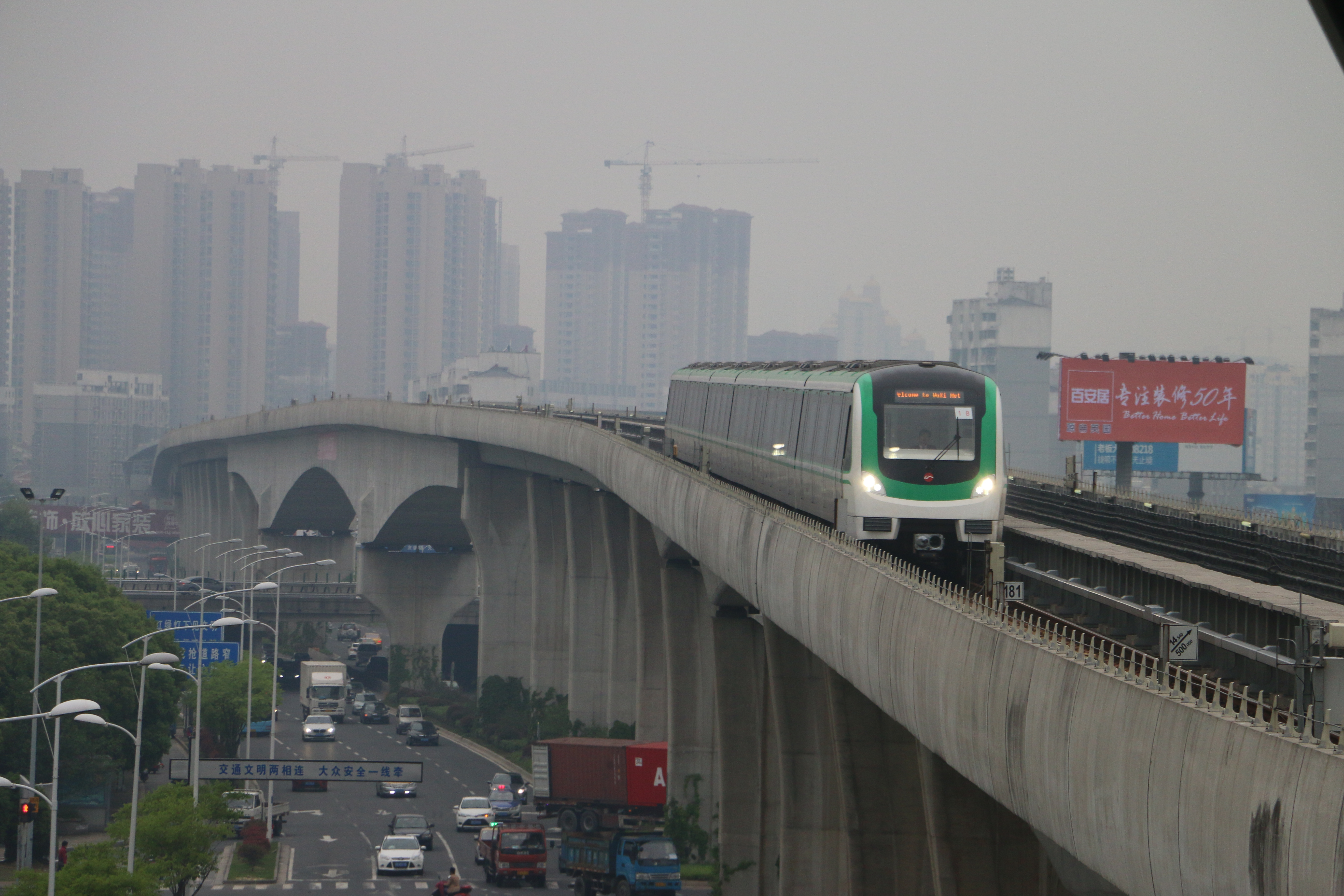 201604 Wuxi Metro L2 near Yunlin